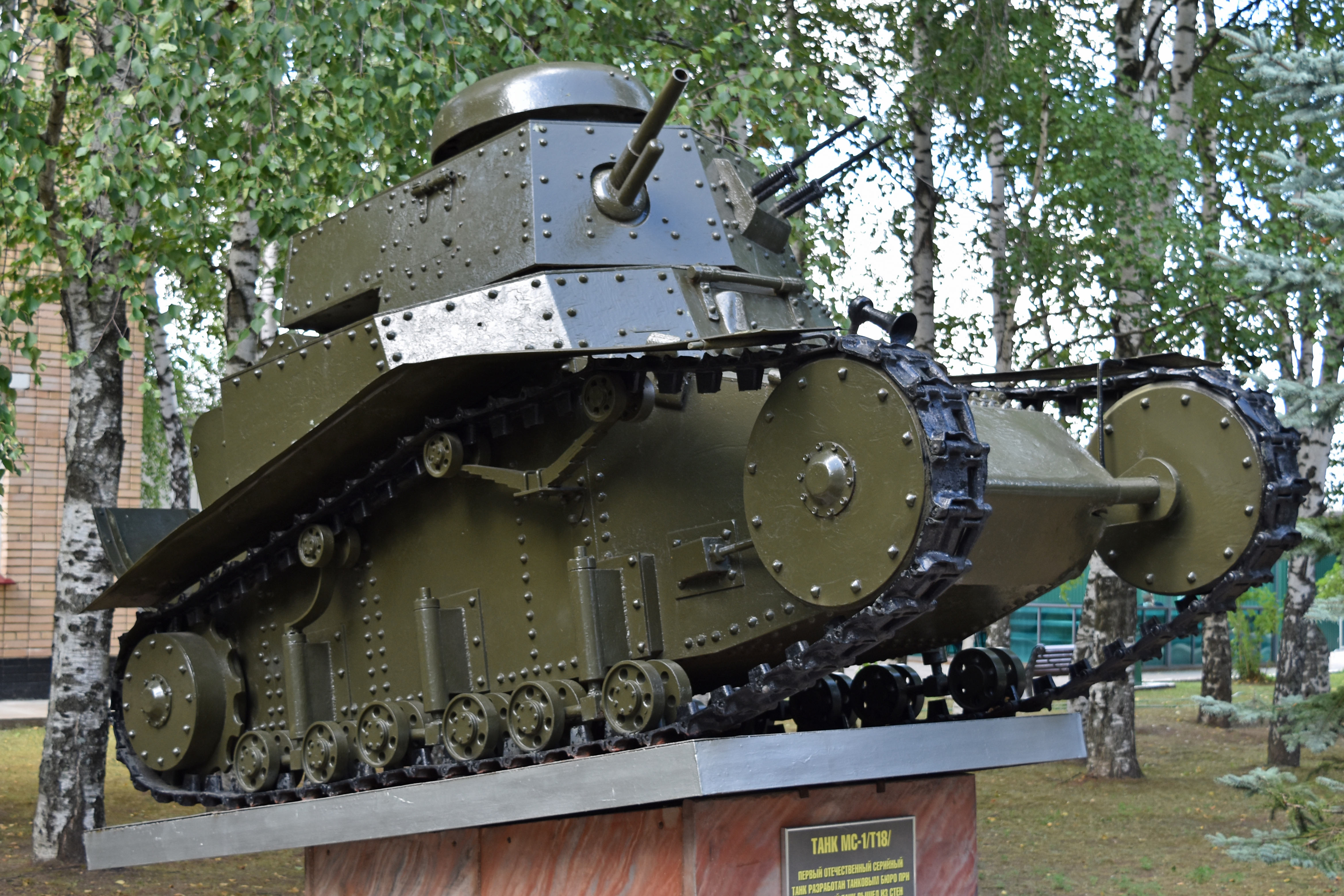 Soviet 1930s Light Tank Manufacturer:- Leningrad Obukhov Factory / Bolshevik Factory Built:- 1928 to 1931 Total production:- 960 Main Armament:- 37mm Model 28 gun The T-18 was the first Soviet designed tank. It provided valuable experience in the process of tank design and construction, although the type itself was largely unsuccessful. It was also known as the MS-1, with MS standing for ‘Maliy Soprovozhdeniya’ which translates as ‘Small Support’ or ‘Small Escorting’ On display in what is best known as Hall 4 of the Kubinka Tank Museum, although its official title is now Pavilion 4 in Area 2 of the Park Patriot museum. Kubinka, Moscow Oblast, Russia. 24th August 2017